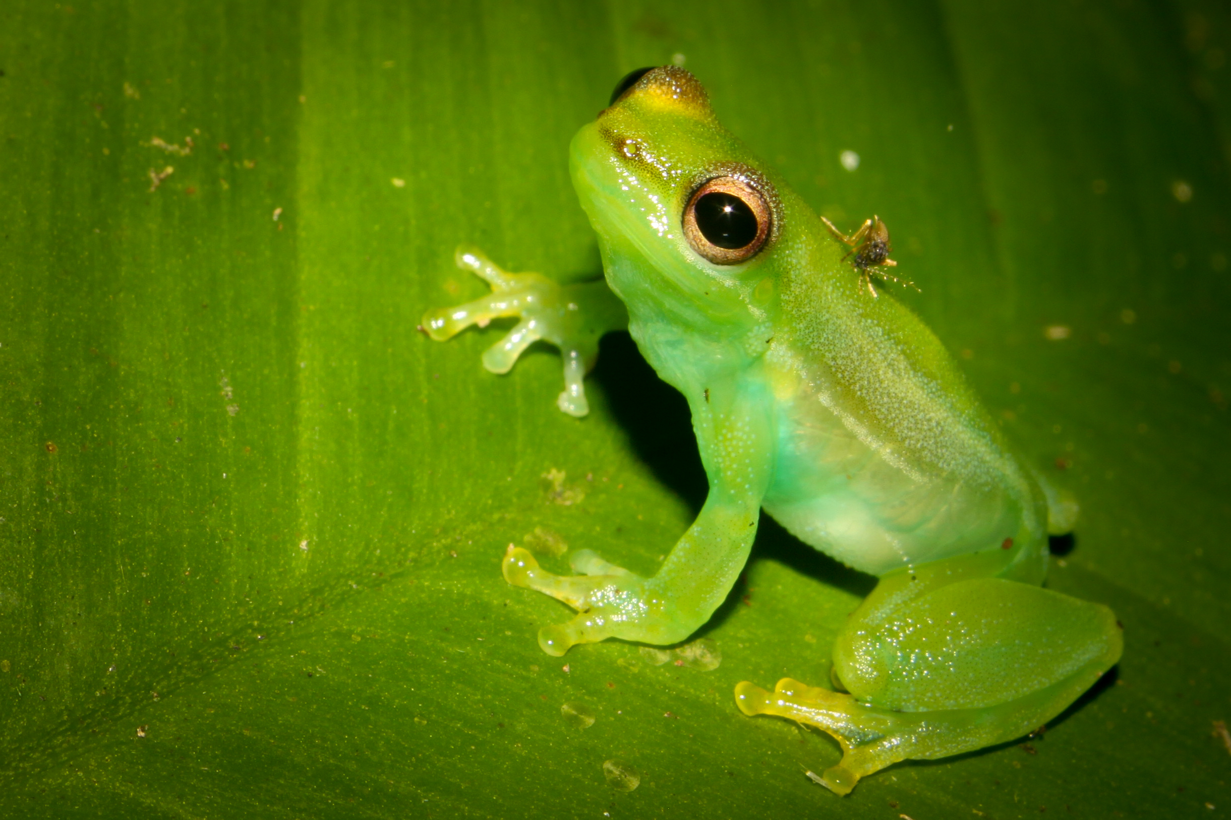 A frog-biting-midge, of the family Corethrellidae, biting a Sphaenorhynchus pauloalvini frog.